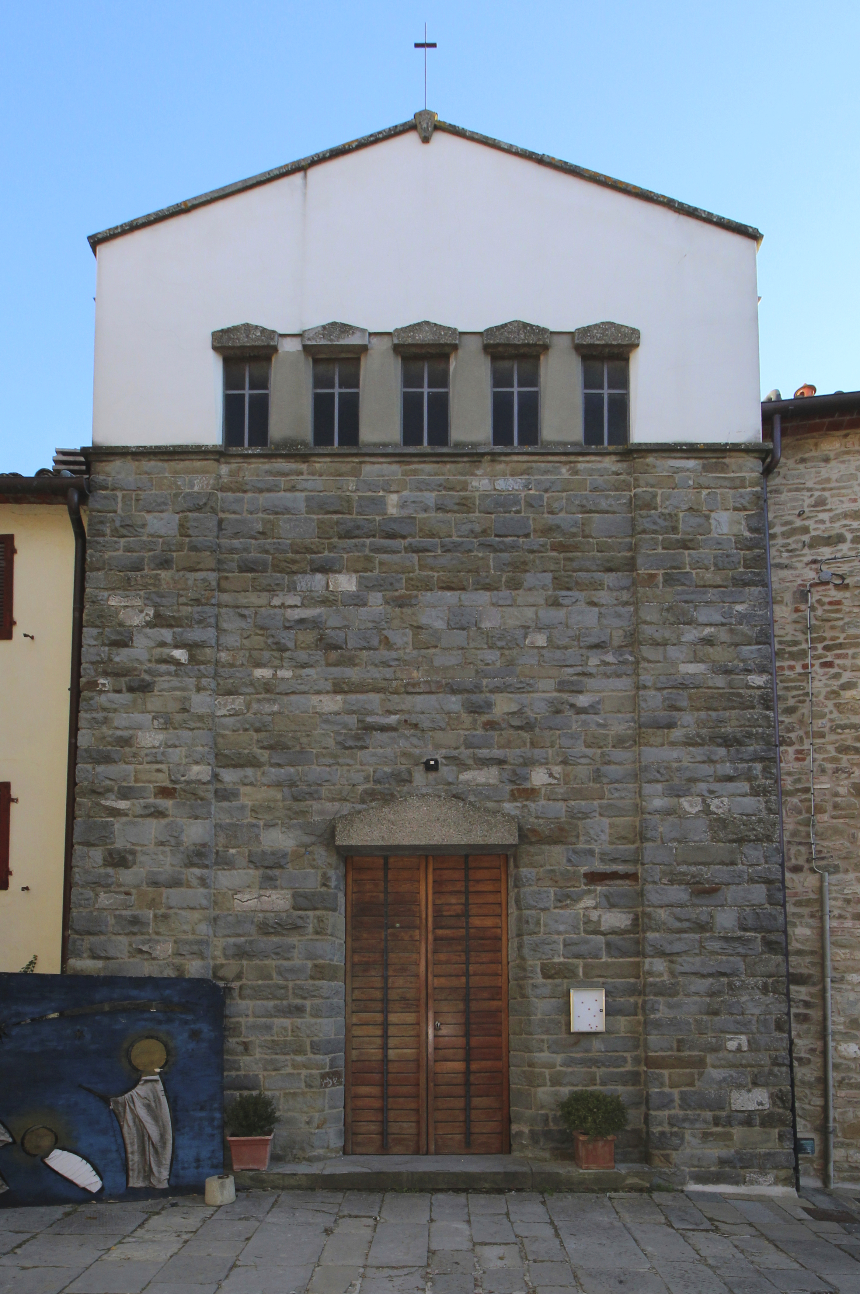 Church Sant'Egidio, San Pancrazio, hamlet of Bucine, Province of Arezzo, Tuscany, Italy